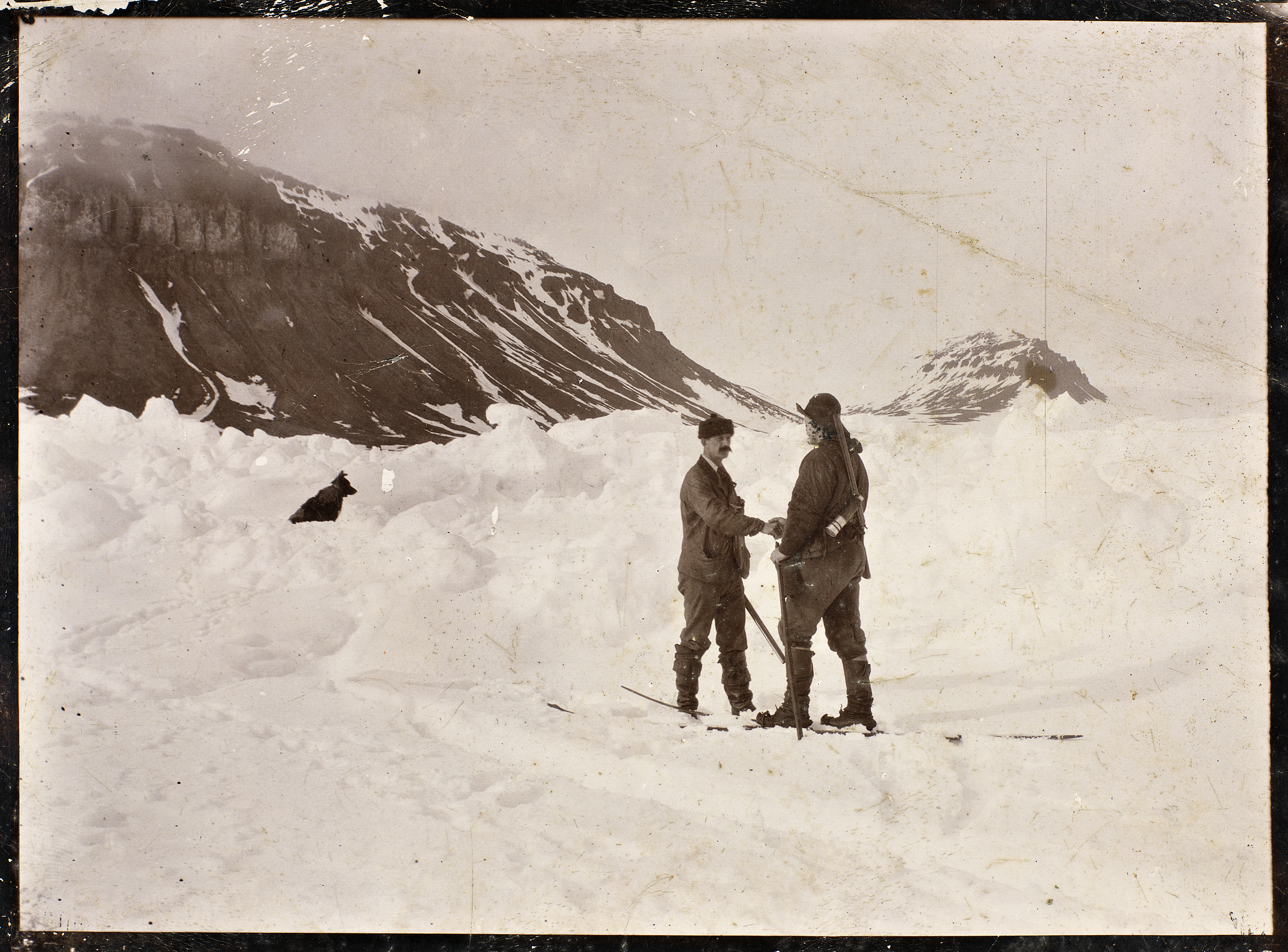 Motiv / Motif: Ca. 15 måneder etter at Nansen og Johansen skilte lag med kameratene i Polhavet og ca 3 år etter at de forlot Norge. Frederick George Jackson, britisk offiser, polarforsker og leder for ekspedisjonen til Frans Josefs Land 1894-1897 hilser på Fridtjof Nansen. Fotografiet ble arrangert 6 dager etter at møtet faktisk fant sted 17-06-1896. Approximately 15 months after Nansen and Johansen's departure from their friends in the Arctic Ocean, and approximately 3 years after they had left Norway. Frederick George Jackson, British officer and arctic researcher, greets Fridtjof Nansen. The photo was arranged 6 days after the meeting actually took place June 17, 1896 Dato / Date: 23. juni 1896 Fotograf / Photographer: ukjent / unknown Sted / Place: Russland, Frans Josefs Land, Kap Flora Eier / Owner Institution: Nasjonalbiblioteket / National Library of Norway Lenke / Link: Bildesignatur / Image Number: bldsa_3c114